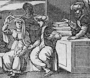 Arabian Nights Images - Unknown This 1883 version gives no credit for the artist, which is a shame because I think the style is really interesting, and rather contemporary-looking considering the age. It was published by J. B. Lippincott & Co.